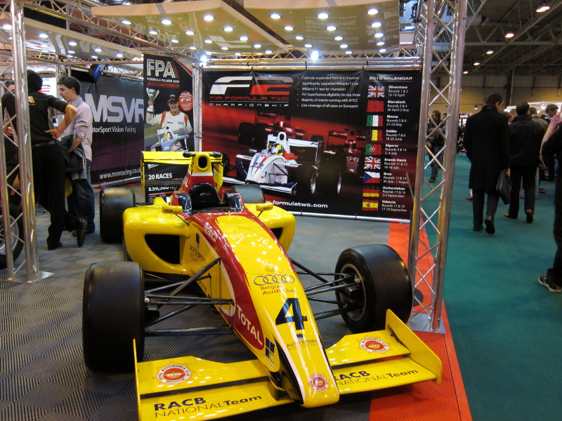 The exhibition vehicles in AUTOSPORTS Racing Car Show.